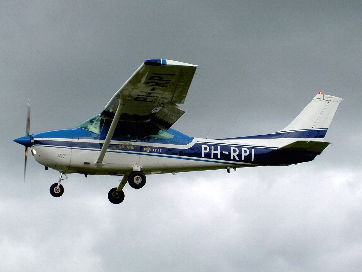 Photographed at Teuge International Airport.